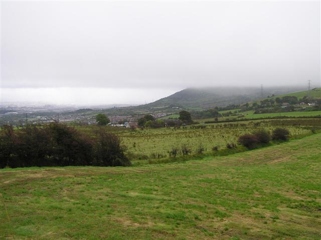 Near Squires Hill Looking south-east on the direction of Ligoniel